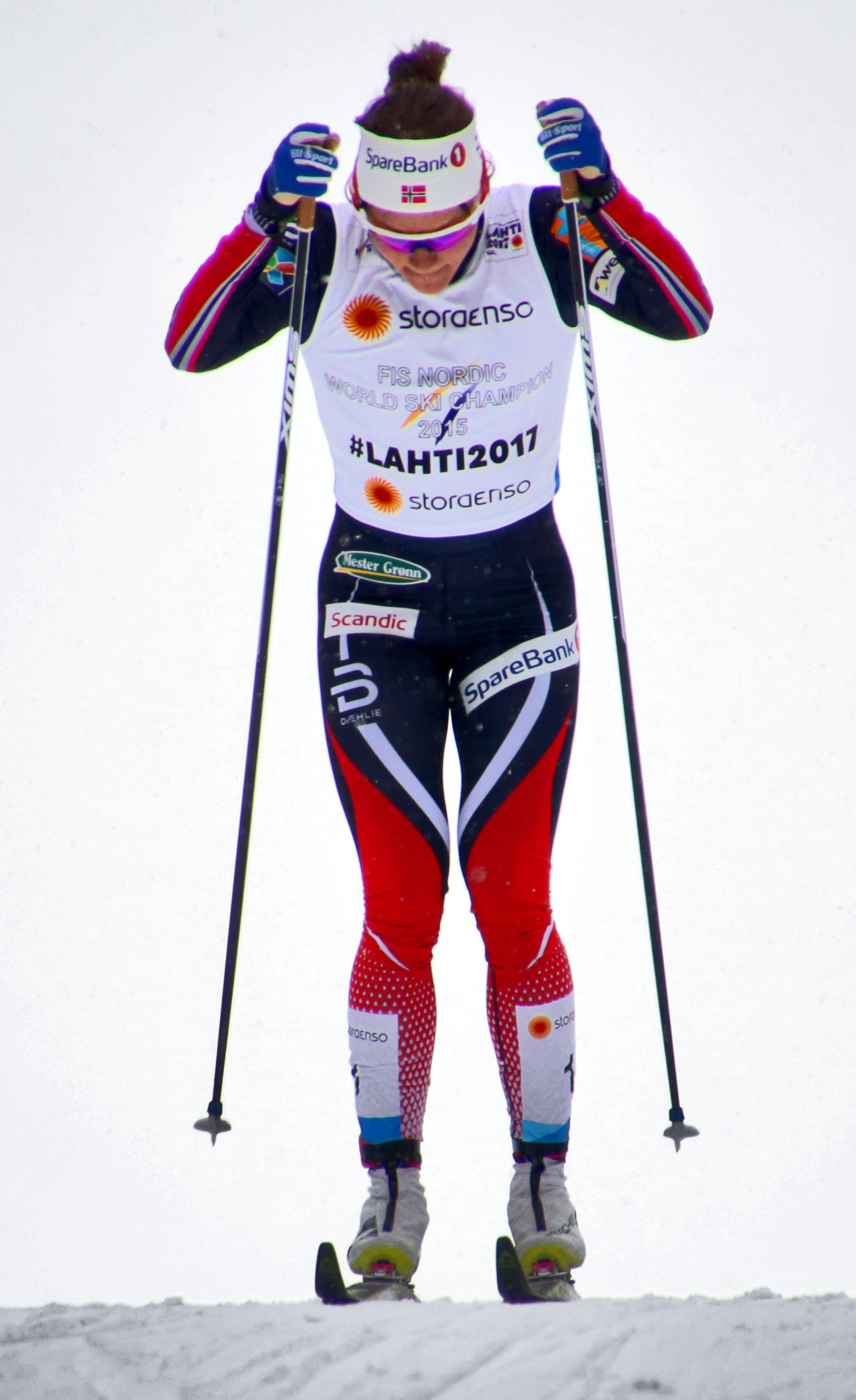 Lahti. At the cross-country skiing world championships.